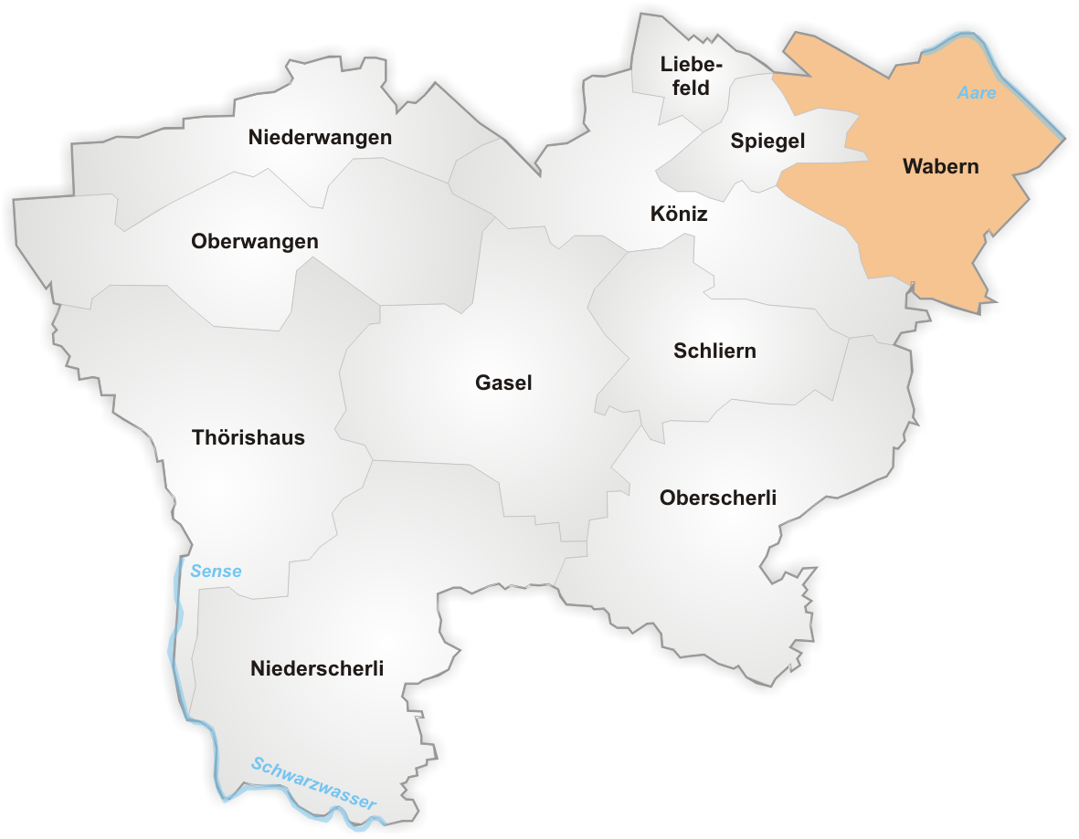 Quarter Wabern